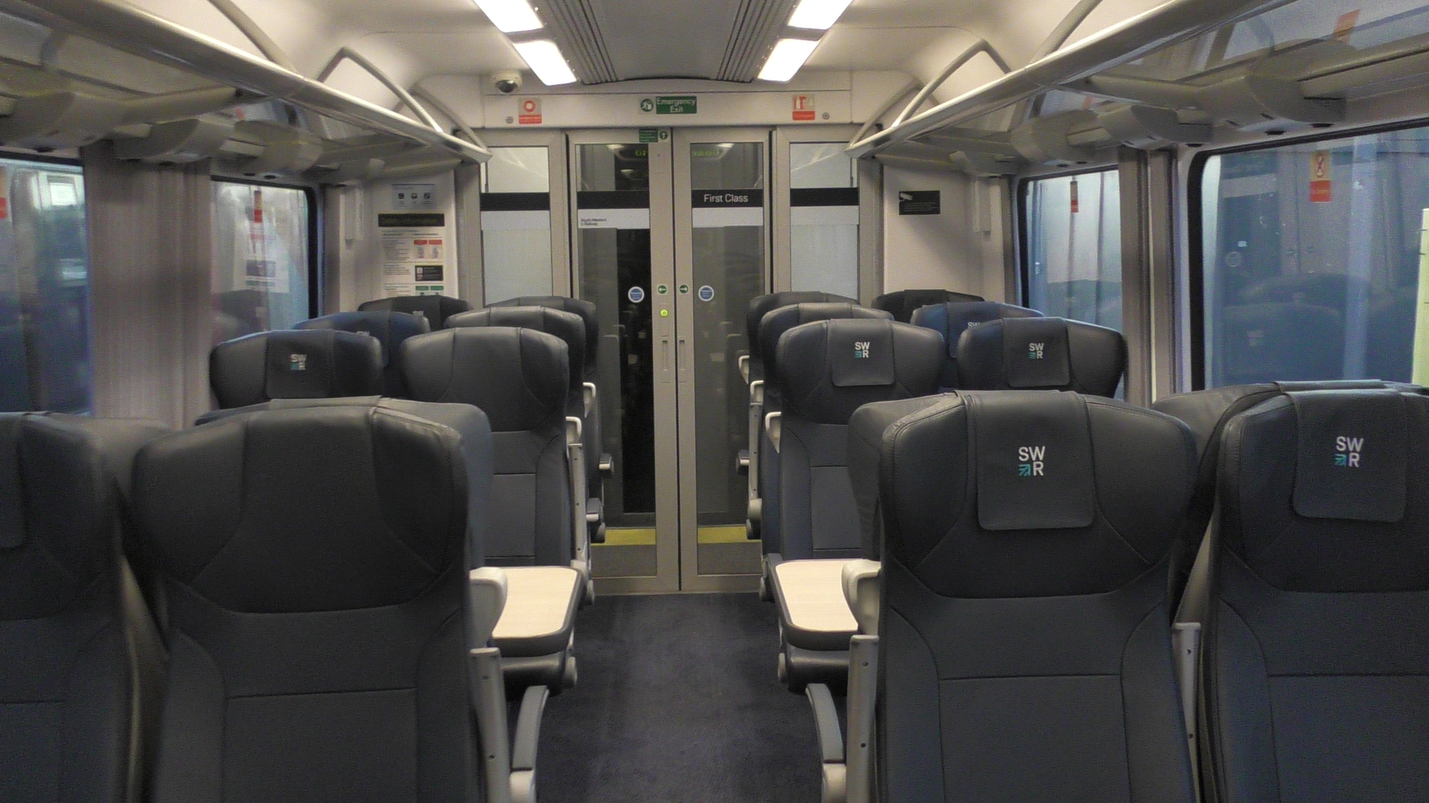 444040's fully refurbished South Western Railway First Class interior.